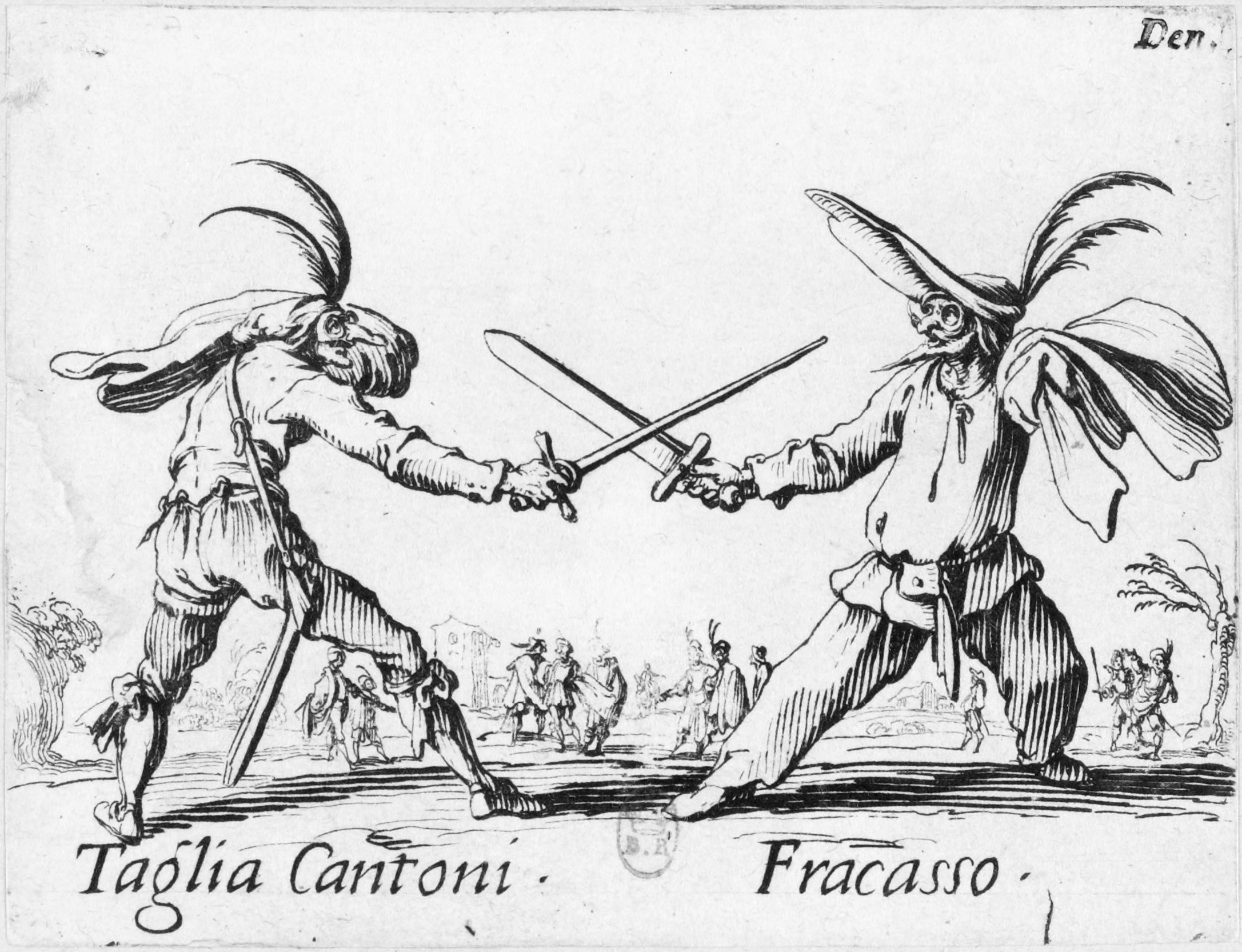 Taglia Cantoni (Scaramuccia, "Little Skirmisher") and Fracasso ("Big Noise", nom de guerre of Il Capitano), characters of the commedia dell'arte (etching print, 7.2 x 9.3 cm)